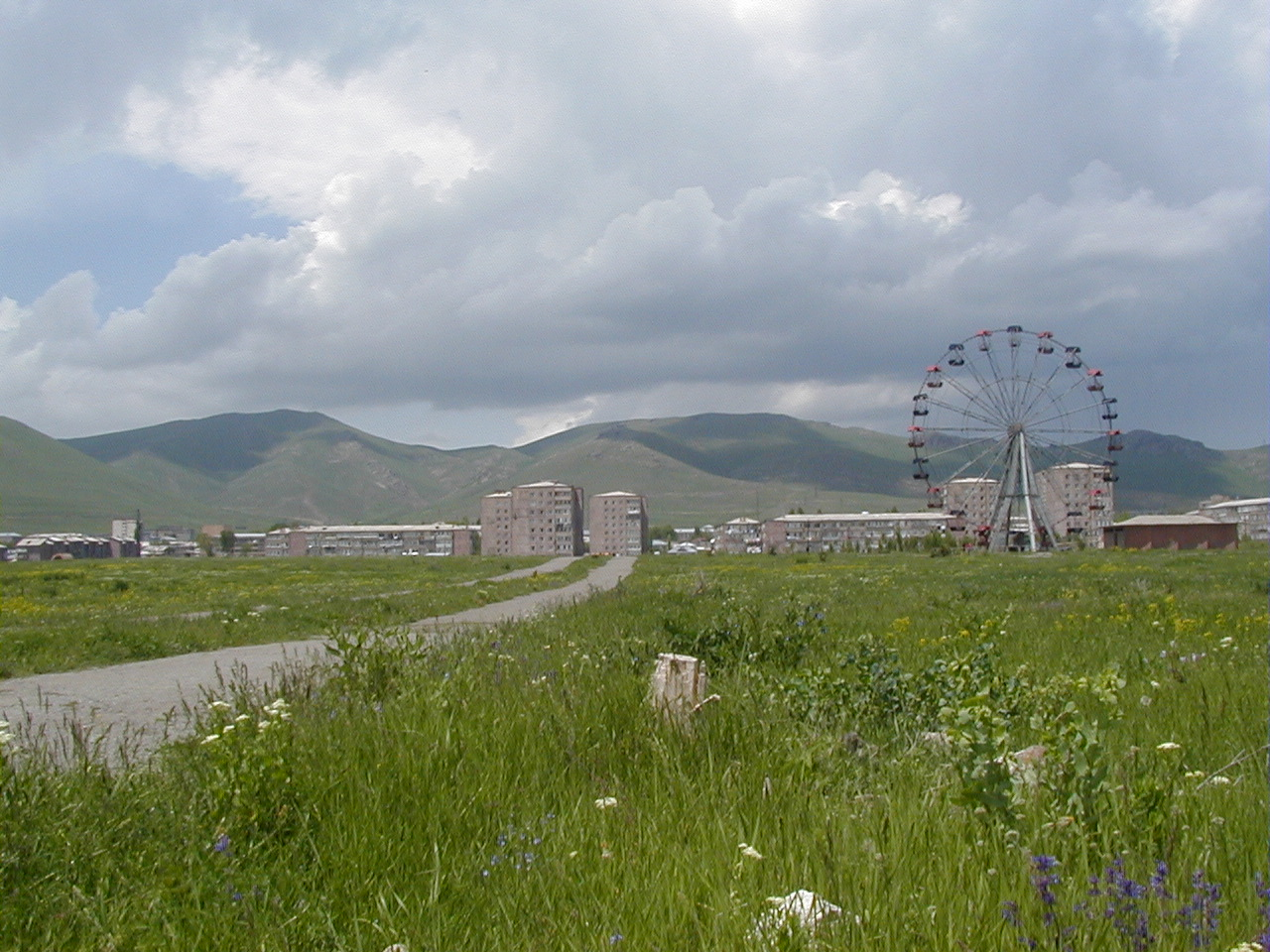 Sevan city skyline